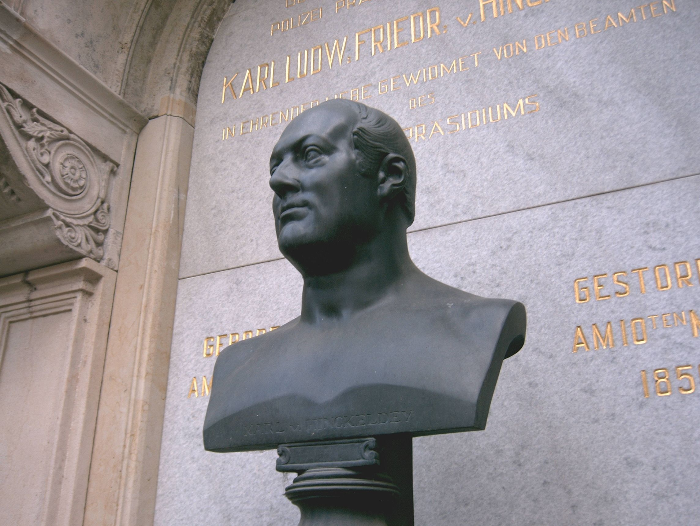 Grave of superintendent Karl Ludwig Friedrich von Hinckeldey on the St. Marien- und St. Nikolai-Friedhof I.